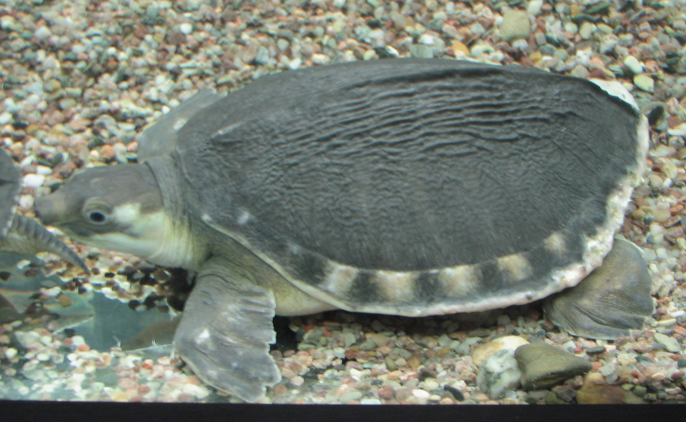 Pig-snouted River (Carettochelys insculpta) in aquarium of ZOO Brno, Czech Republic